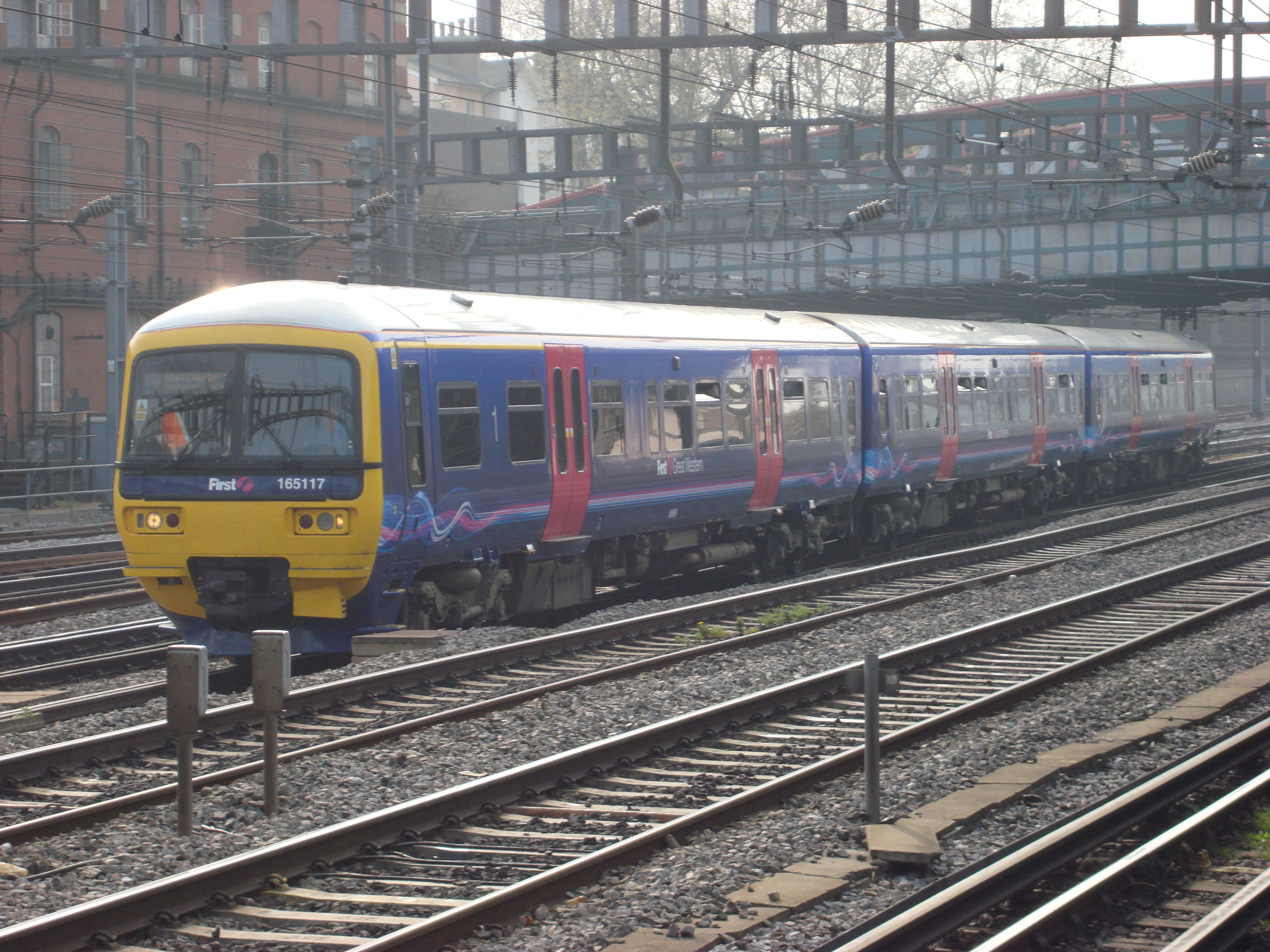 165117 passes Royal Oak Tube Station just outside its Paddington terminus